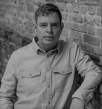 Photo taken in Sitges in November 2019